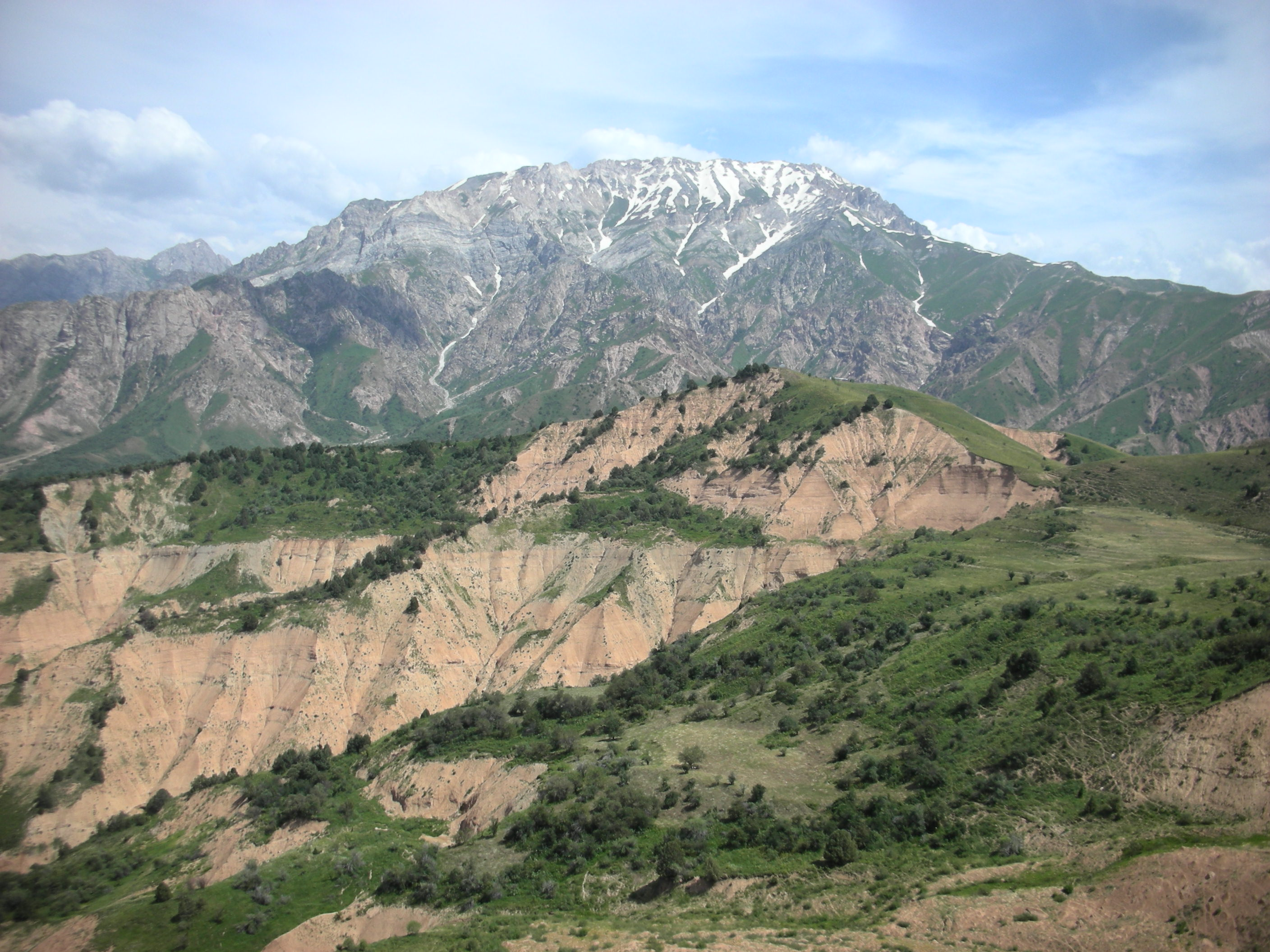 The Greater Chimgan Mountain in Tashkent Province, Uzbekistan. This picture is in the Public Domain. However, if this image is used outside Wikipedia, a photographer's credit (Dmitriy Page) would be much appreciated! (Jabez)